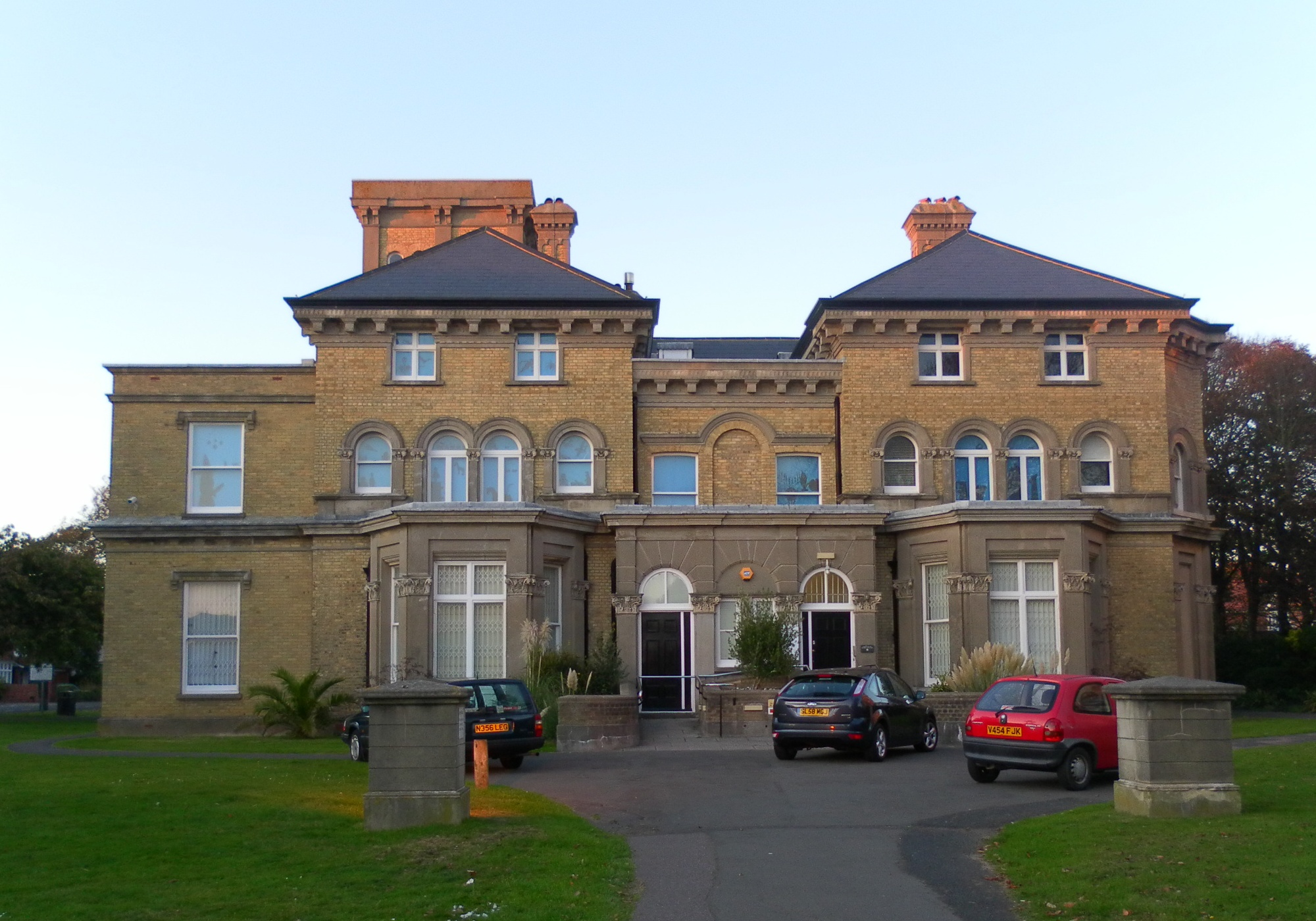 Hove Museum and Art Gallery (Brooker Hall), New Church Road, Hove, City of Brighton and Hove, England. Built as a villa in the late 19th century.